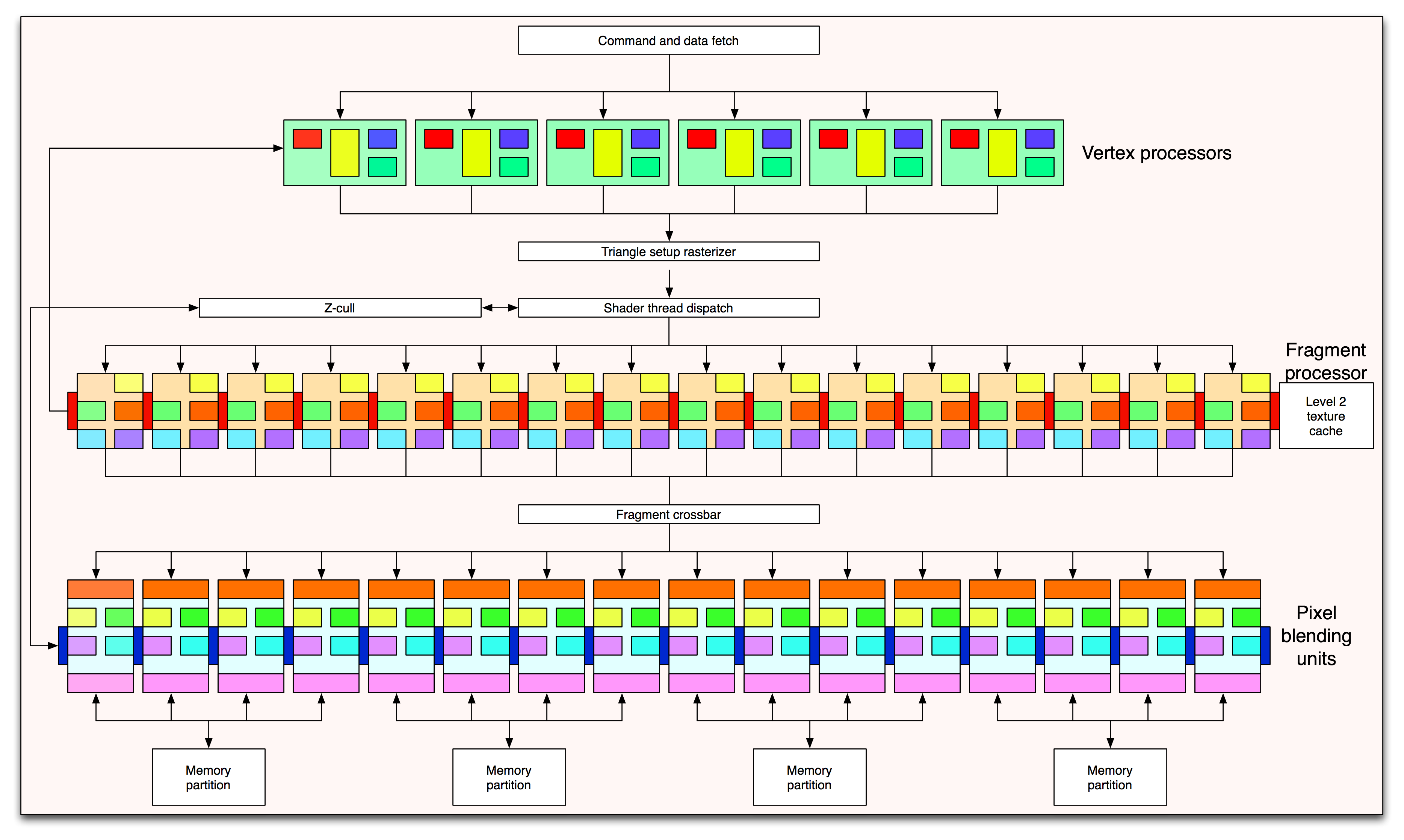 GPU GeForce 6800